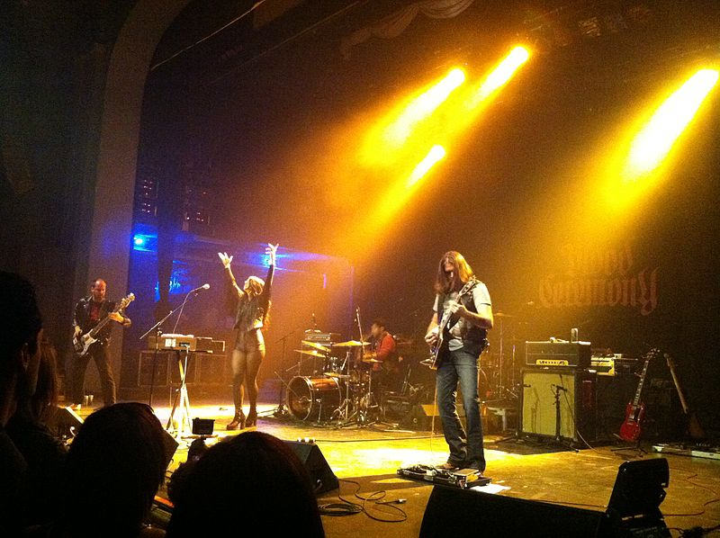 Blood Ceremony live at the Roxy on Sunset